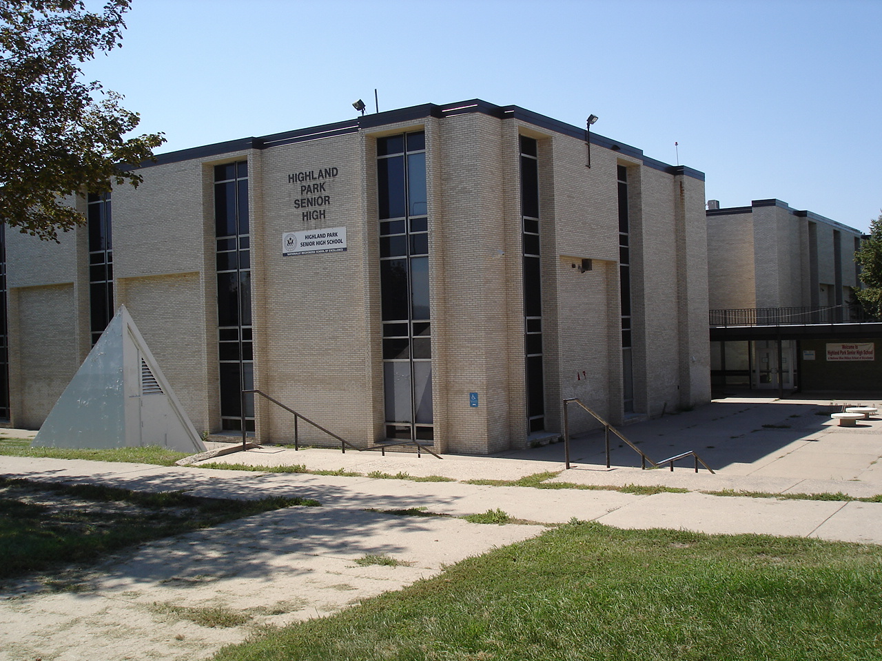 Exterior shot of Highland Park Senior High School.